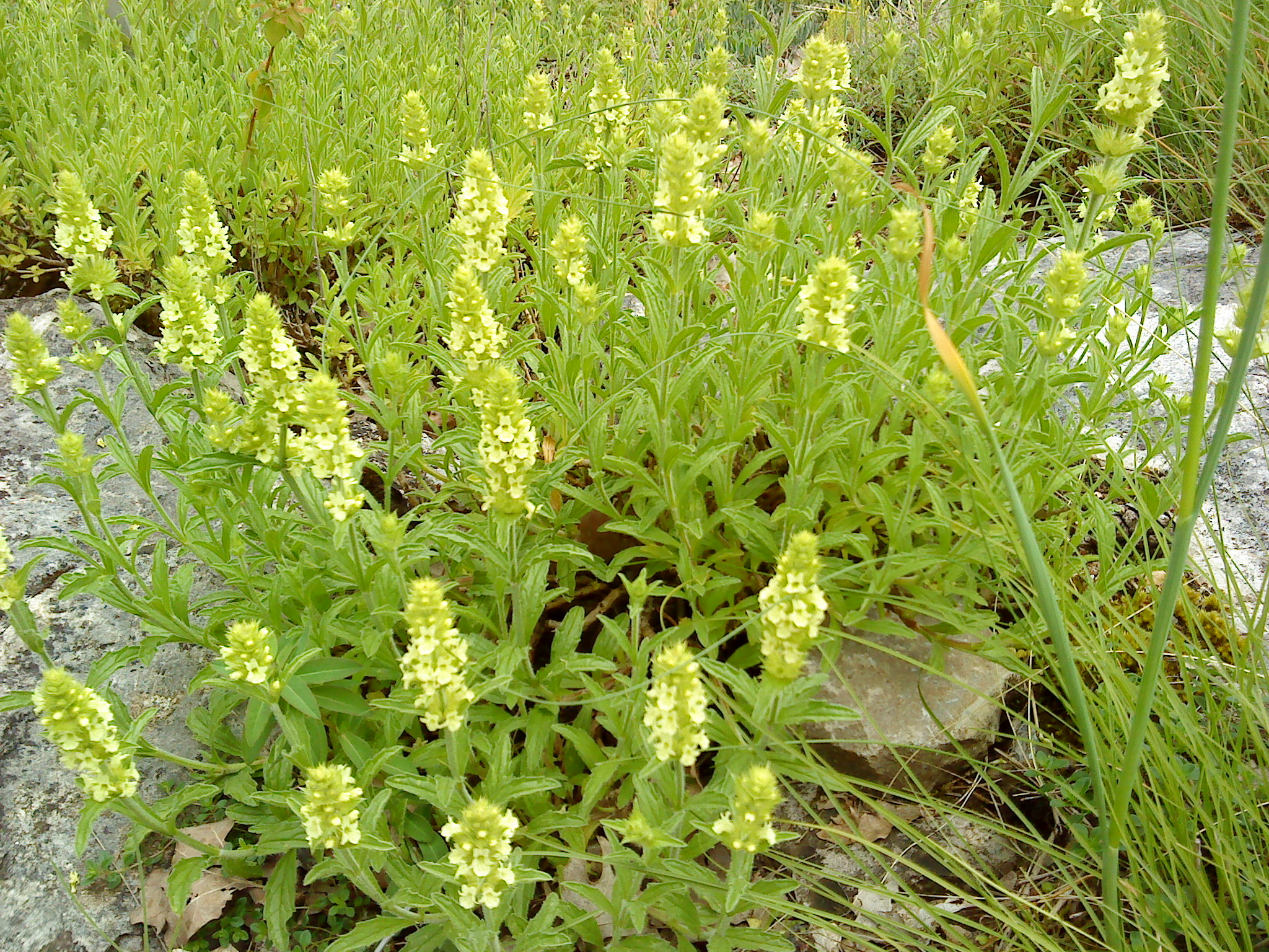 ironwort (Sideritis montana)